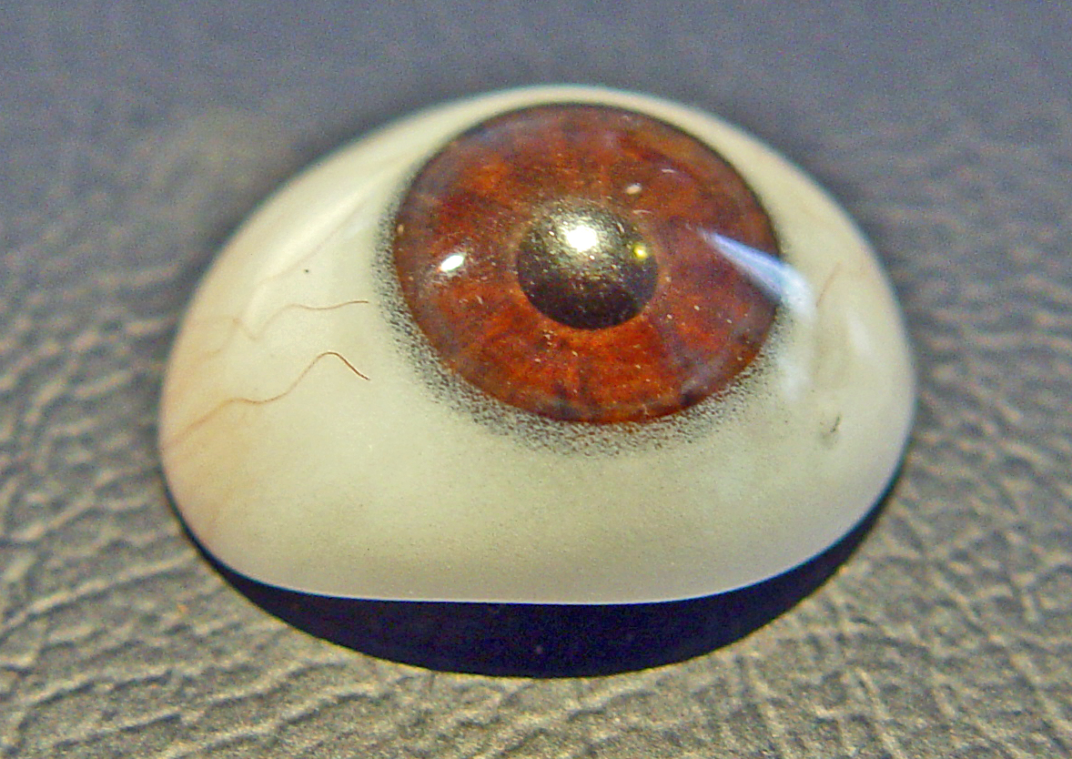 A scleral shell (prosthesis) (not a scleral lens)